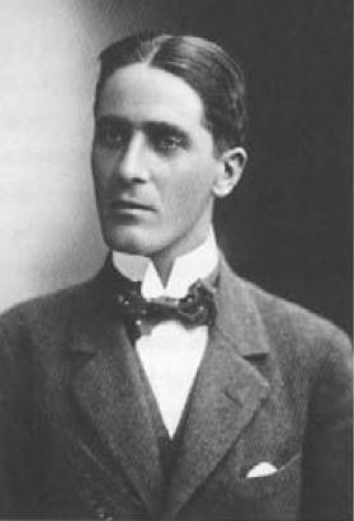 Pierre Jeanneret, Le Corbusier y Raoul La Roche